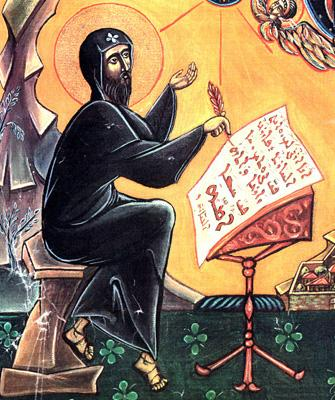 Unidentified miniature of Ephraim the Syrian